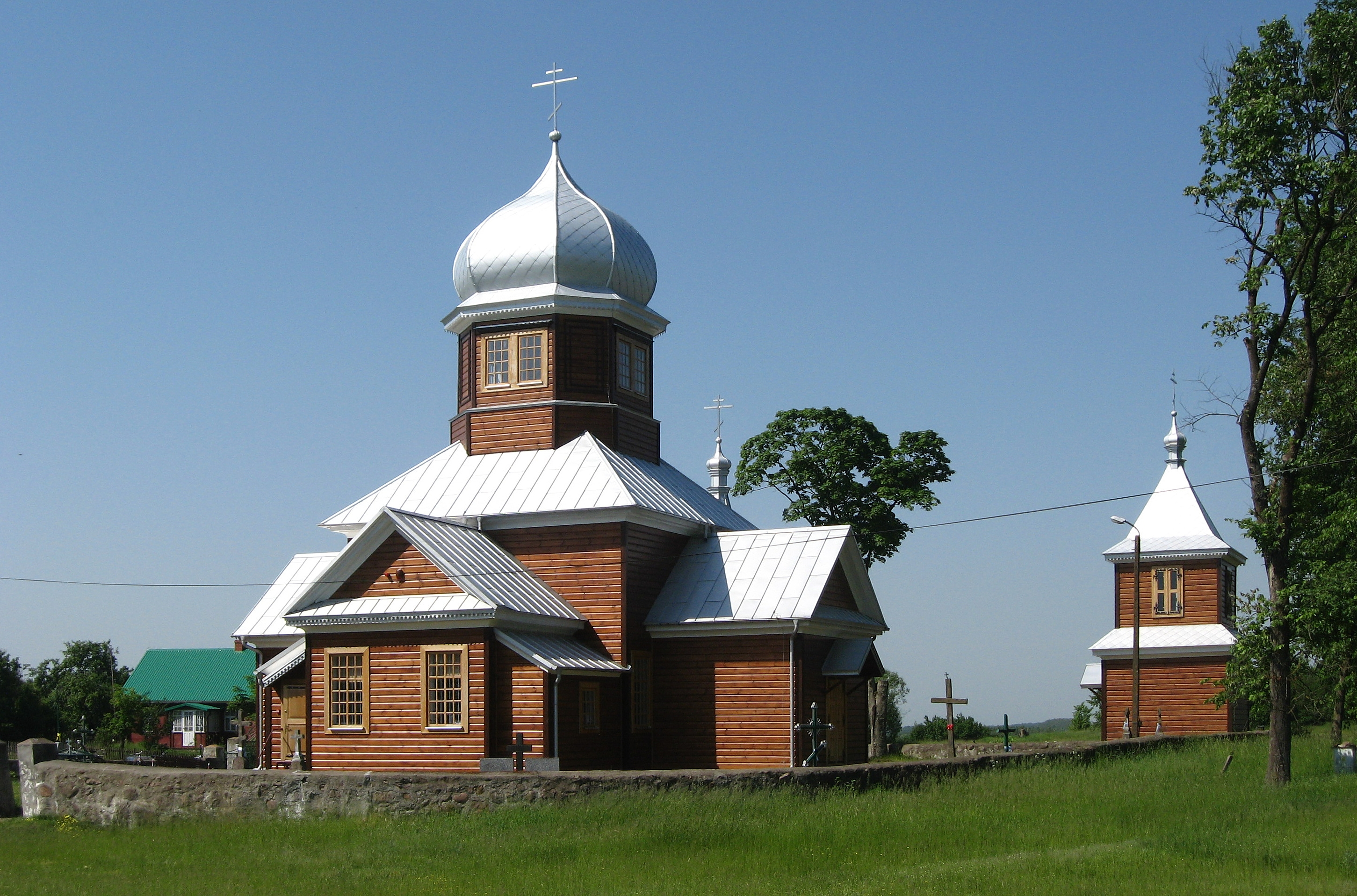 Orthodox church of the Pokrov in Zubacze (Зубачы)